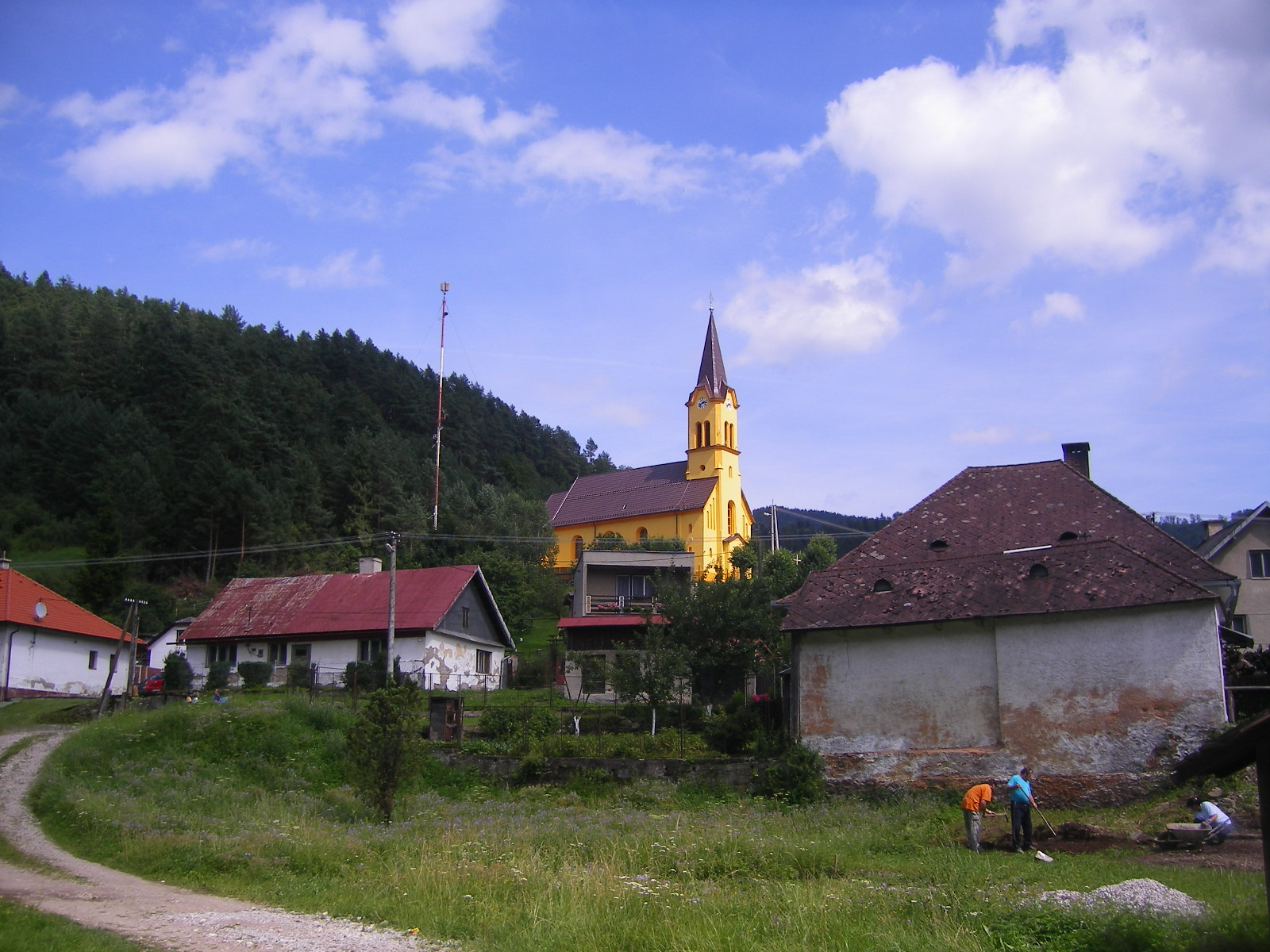 Smolnícka Huta - general view with the catholic church